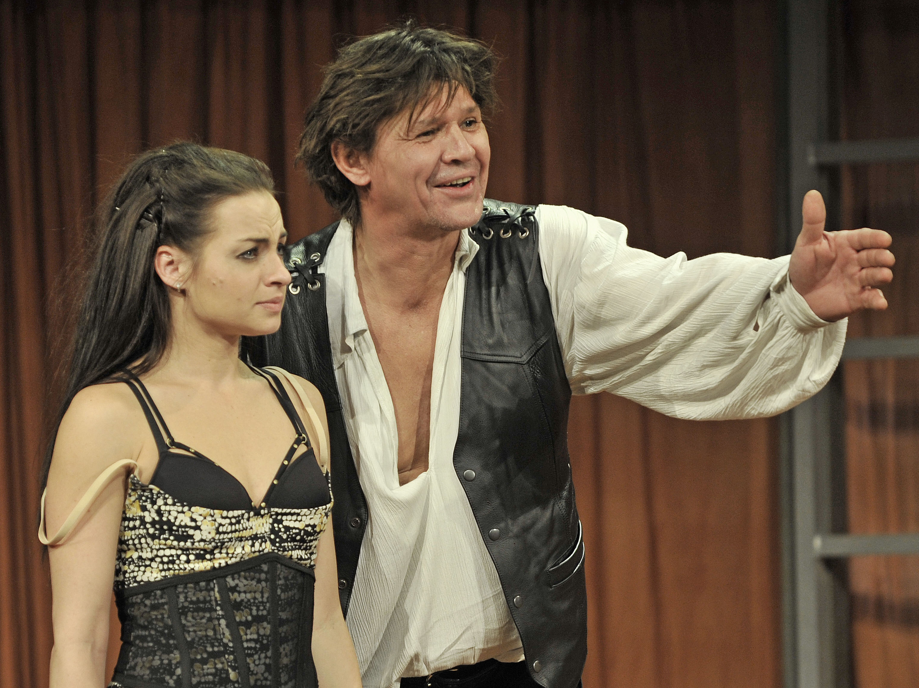 The Taming of the Shrew by a Czech theatre Městské divadlo Brno